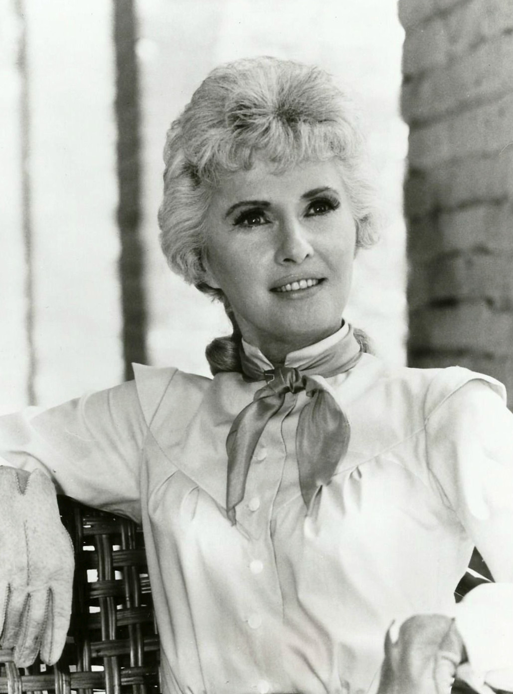 Photo of Barbara Stanwyck as Victoria Barkley from the television program The Big Valley.